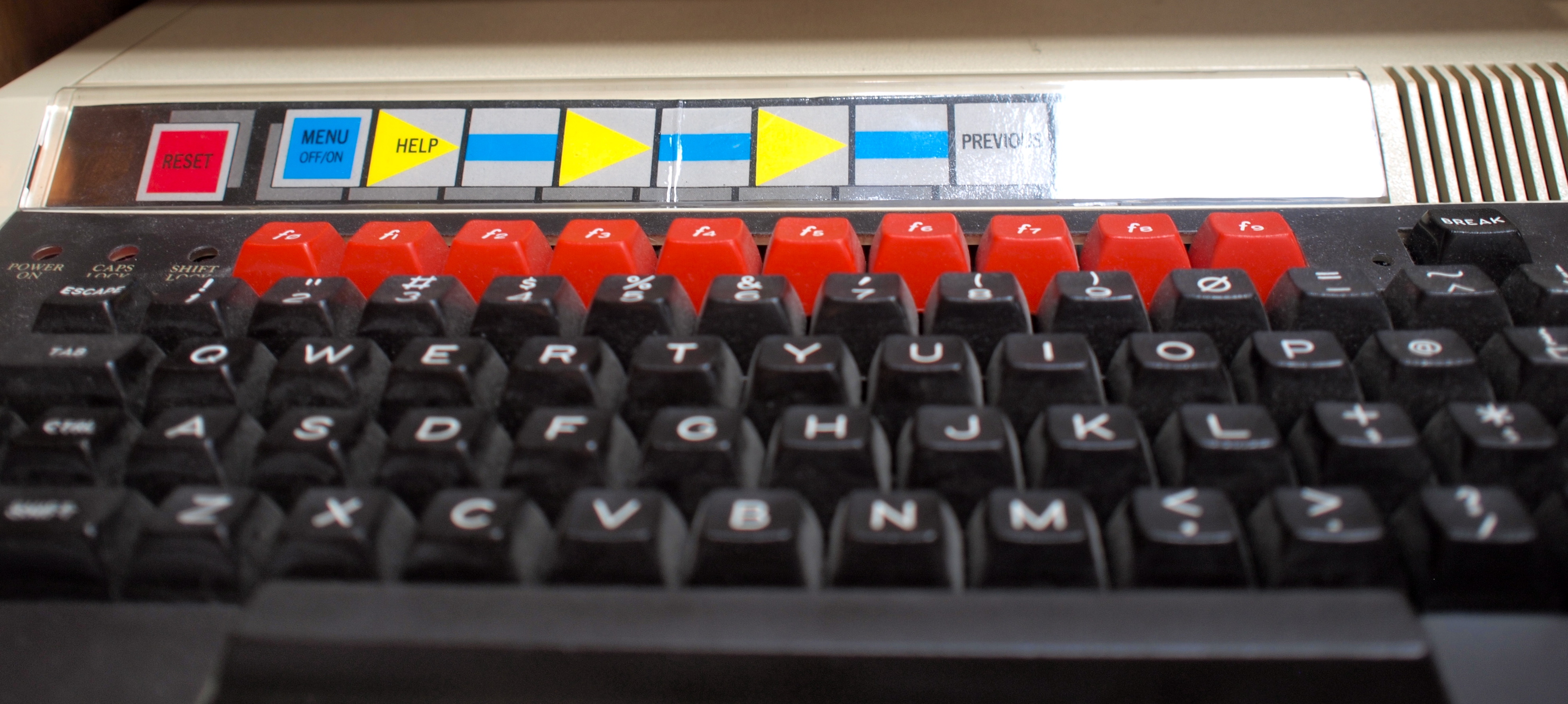 BBC Domesday machine keyboard, showing function key strip